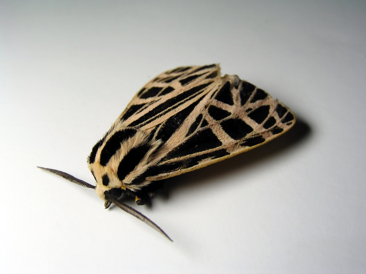 Grammia parthenice, Tiger Moth, Germany